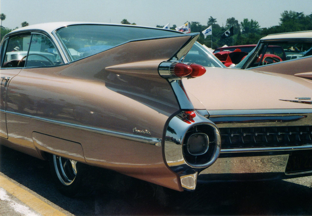 The classic!